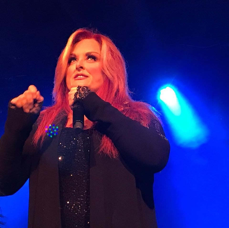 Wynonna Judd performs live in Arlington, Virginia in October 2018.